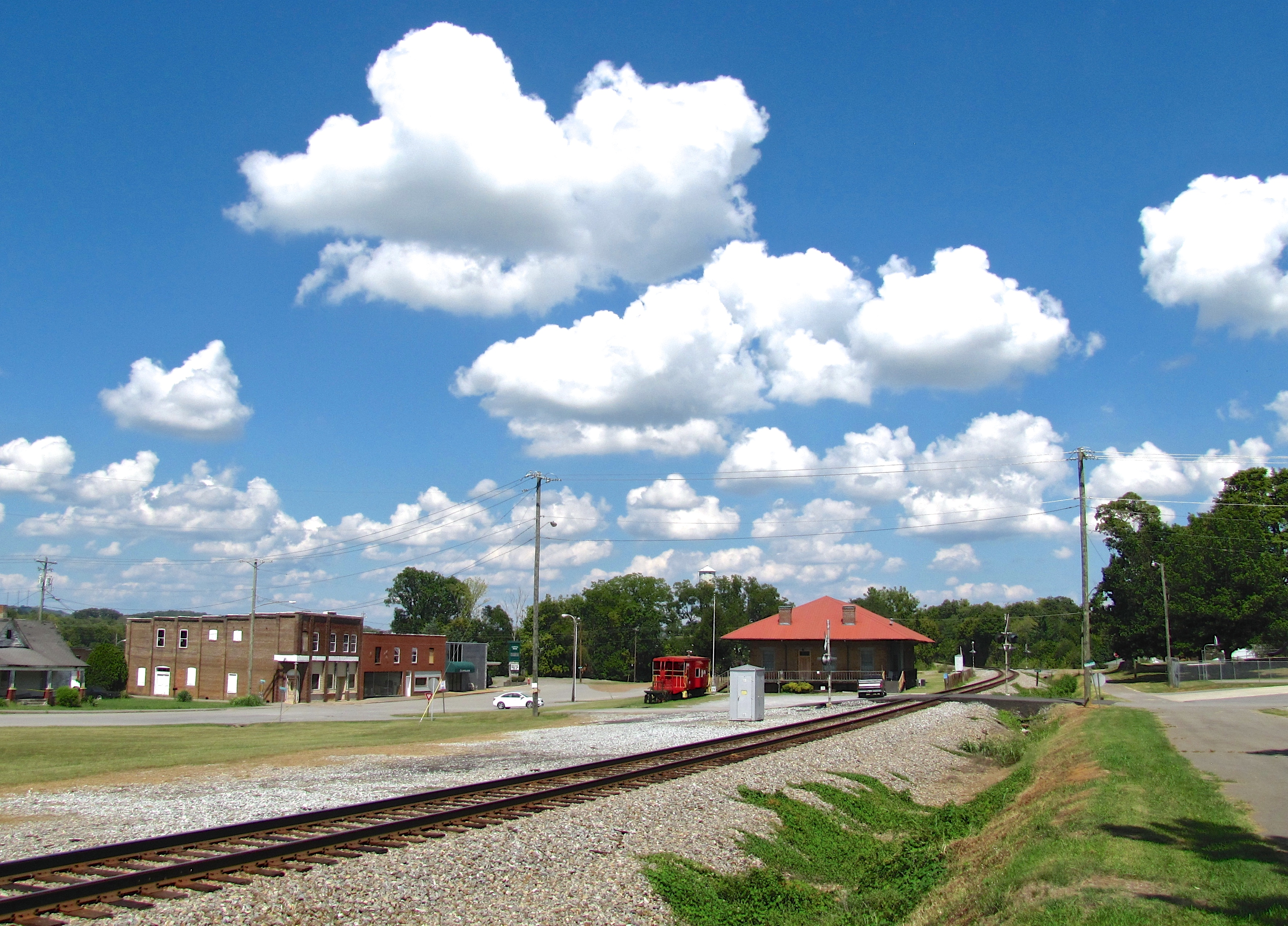 Niota Depot (City Hall) and buildings along Main Street in Niota, Tennessee, United States.